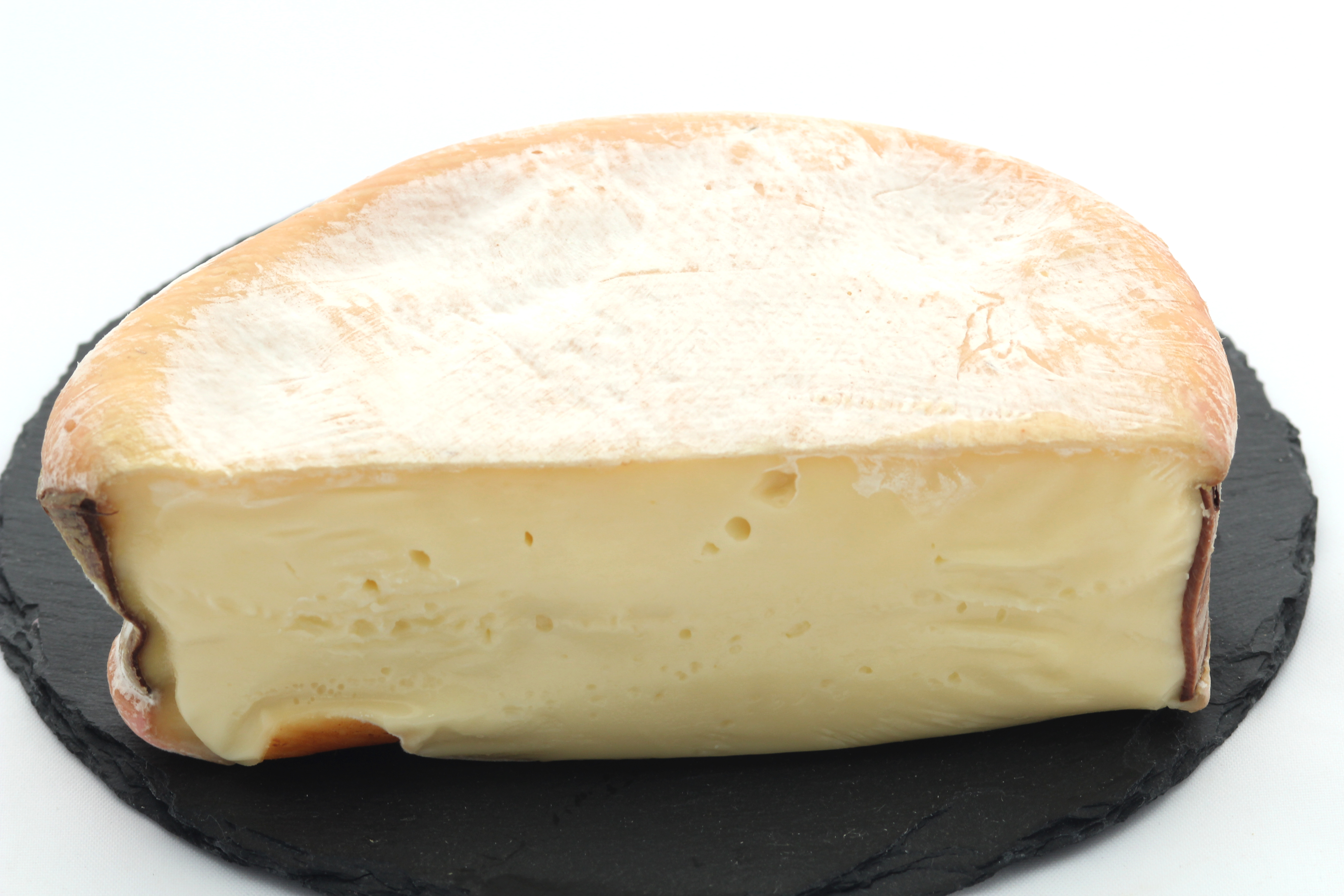 Vacherin Mont d'OR - Swiss soft cheese, from pasteurized cow's milk.